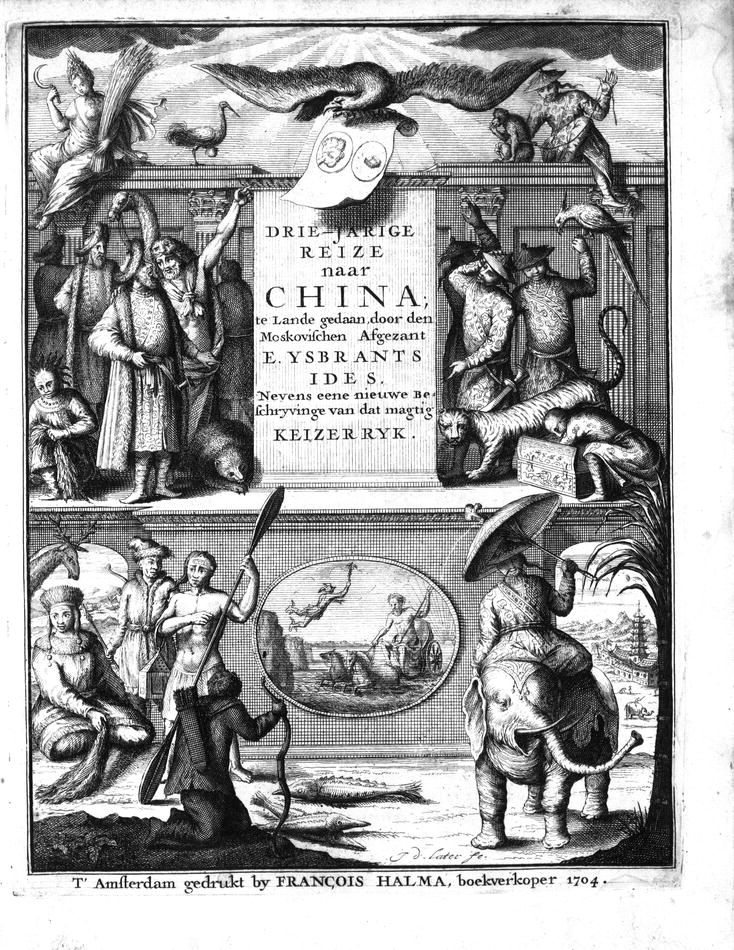 Three years travels from Moscow over-land to China : thro' Great Ustiga, Siriania, Permia, Sibiria, Daour, Great Tartary, etc. to Peking ; containing an exact and particular description of the extent and limits of those countries, and the customs of the barbarous inhabitants; with reference to their religion, government, marriages, daily imployments, habits, habitations, diet death, funerals ... to which is annex'd an accurat description of China, done originally by a chinese author